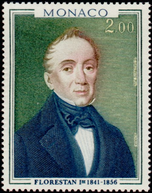 Stamp of Florestan I of Monaco